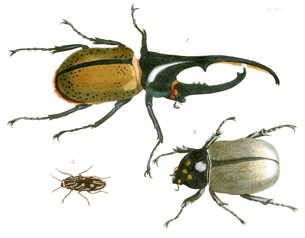 Plate 30, volume 1, from Illustrations of Exotic entomology 1770-1784, Biodiversity Heritage Library. Caption (volume 1), says 1=Dynastes hercules male, 2=Dynastes hercules female, 3=Chalcophora virginiensis (Buprestidae)